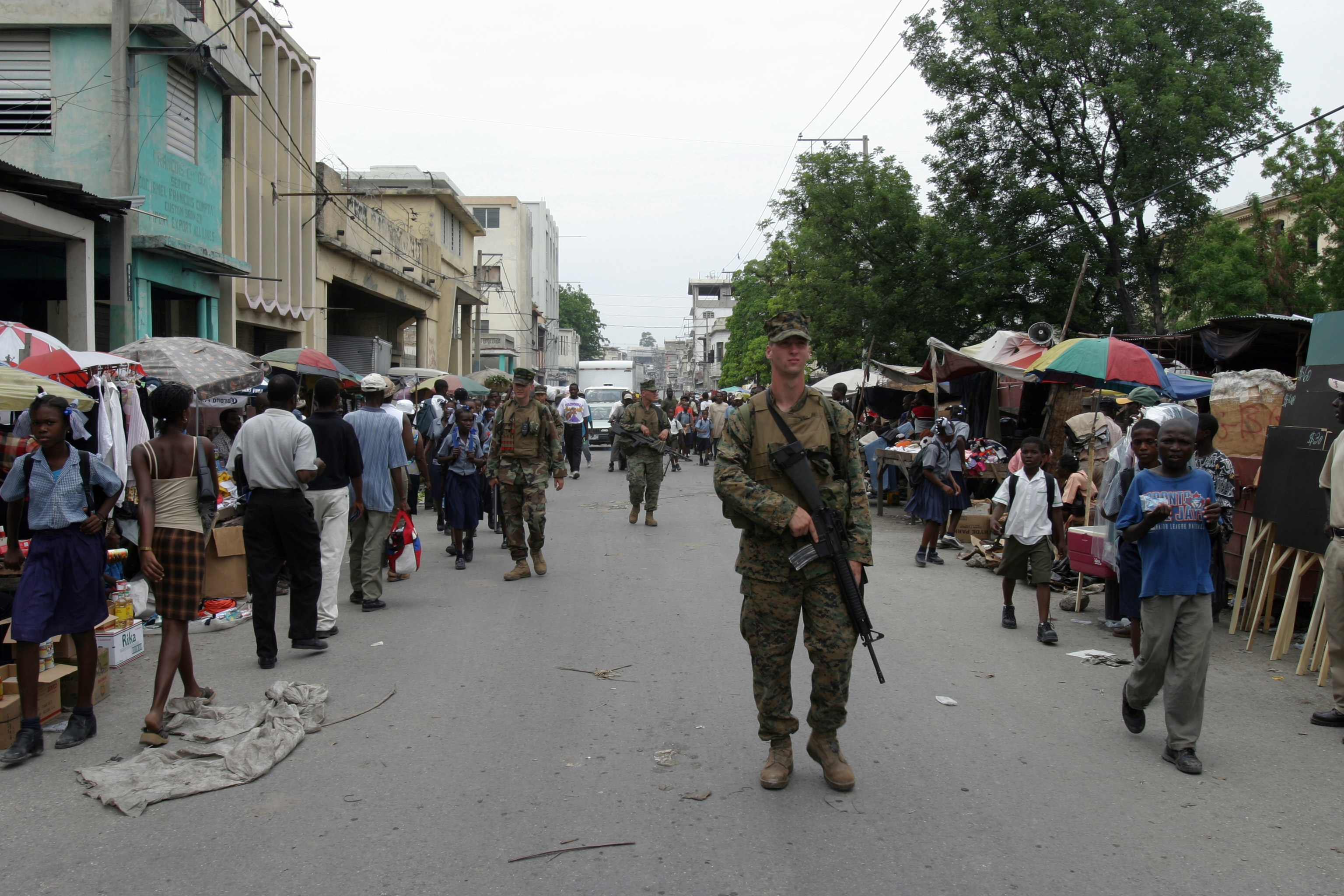 US Marine Corps (USMC) Marines, Lima Company, 3rd Battalion (BN), 8th Marine Regiment, 2nd Marine Division (Mar DIV), patrol through the Bel Air area of Port-au-Prince, Haiti, after distributing donated school supplies to students in a Port-au-Prince, Haiti, school. This effort is known as "Operation Homework," which is part of Operation SECURE TOMORROW.